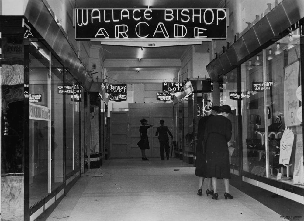 Wallace Bishop Arcade, Brisbane, Queensland, 1939 Milanese Hosiery, Margret Chapman Beauty Salon and Aimies Hats are all visible shopfronts in the Wallace Bishop Arcade, near the corner of Albert and Adelaide Streets, Brisbane, Queensland.